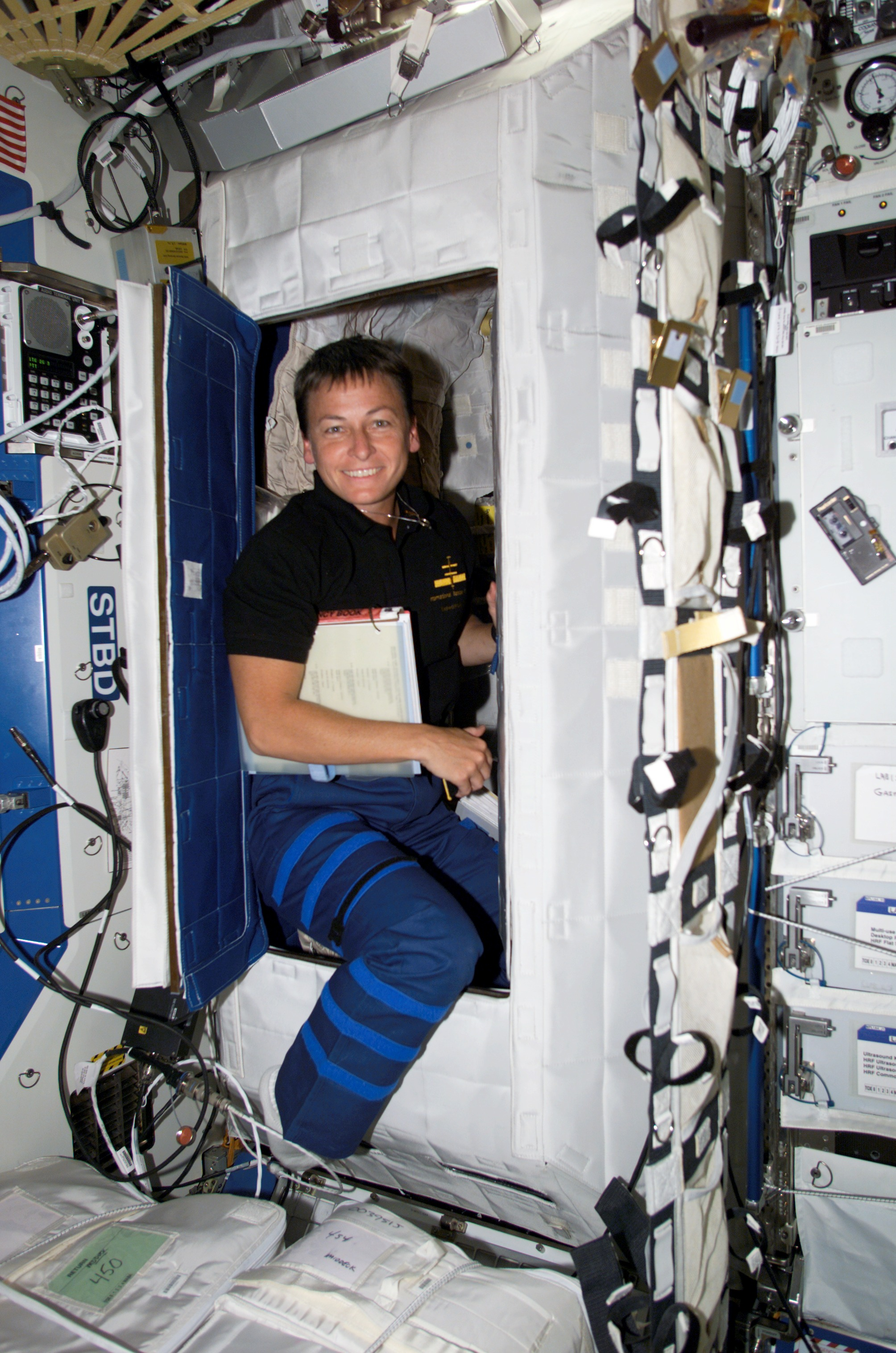 Astronaut Peggy A. Whitson, Expedition Five flight engineer, was photographed in the doorway of the Temporary Sleep Station (TSS) in the Destiny laboratory on International Space Station (ISS).